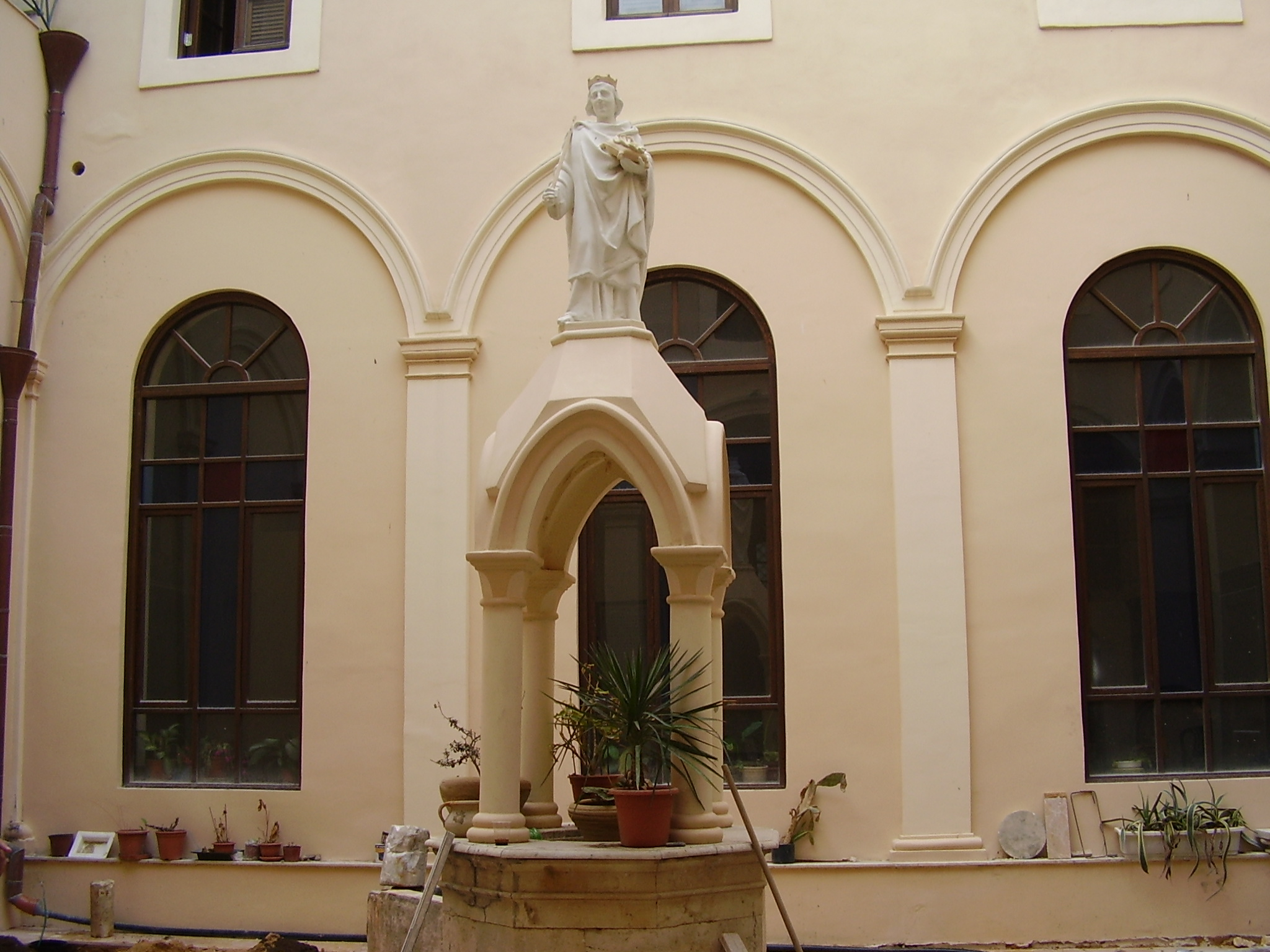 statue of louis ix of france in st. peters church, jaffa, israel. פסל של לואי התשיעי "הקדוש" מלך צרפת בכנסיית סנט פיטרס ביפו.